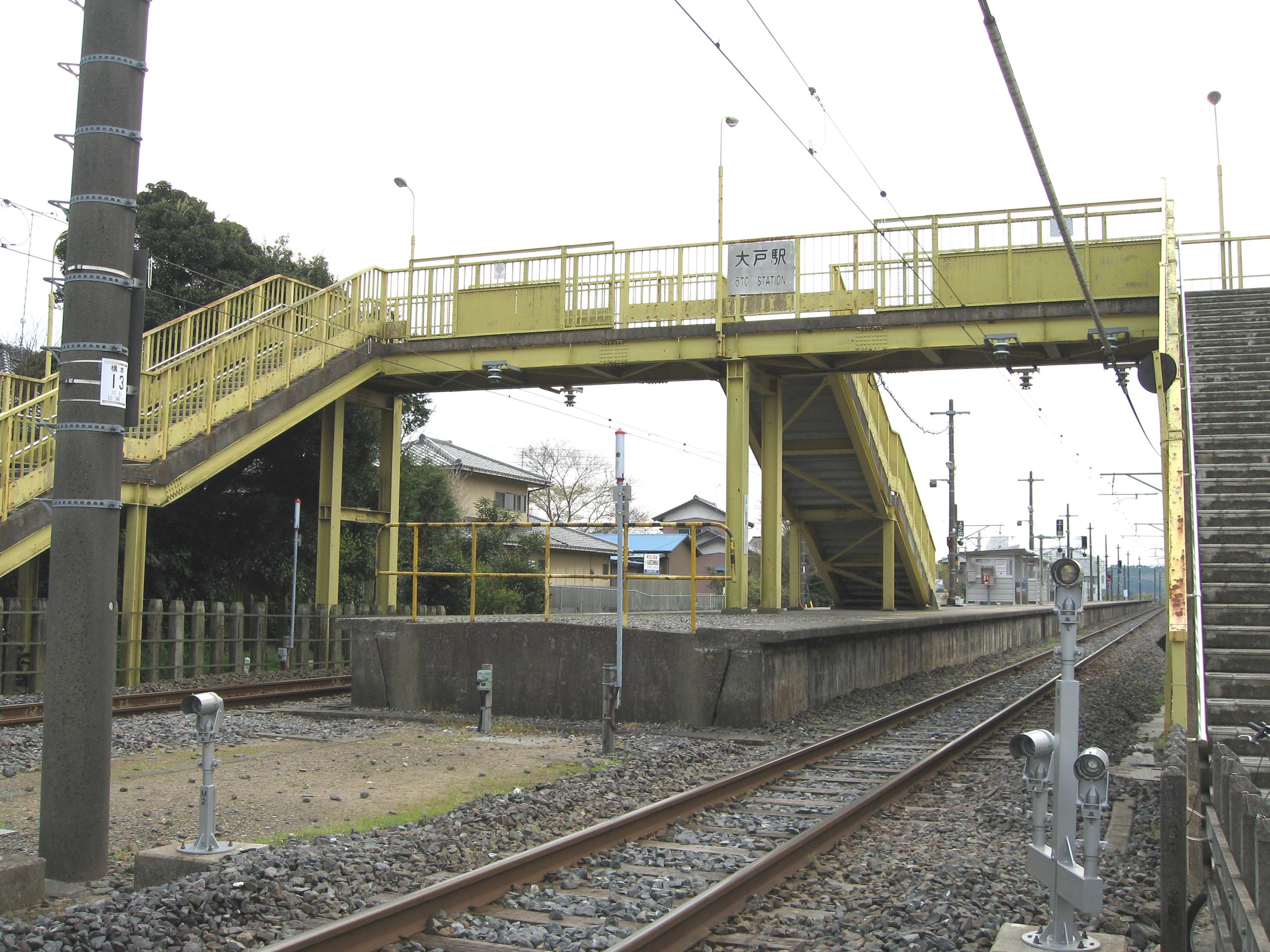 Ooto station, Narita Line, Chiba, Japan, 大戸駅（プラットホームへの歩道橋）